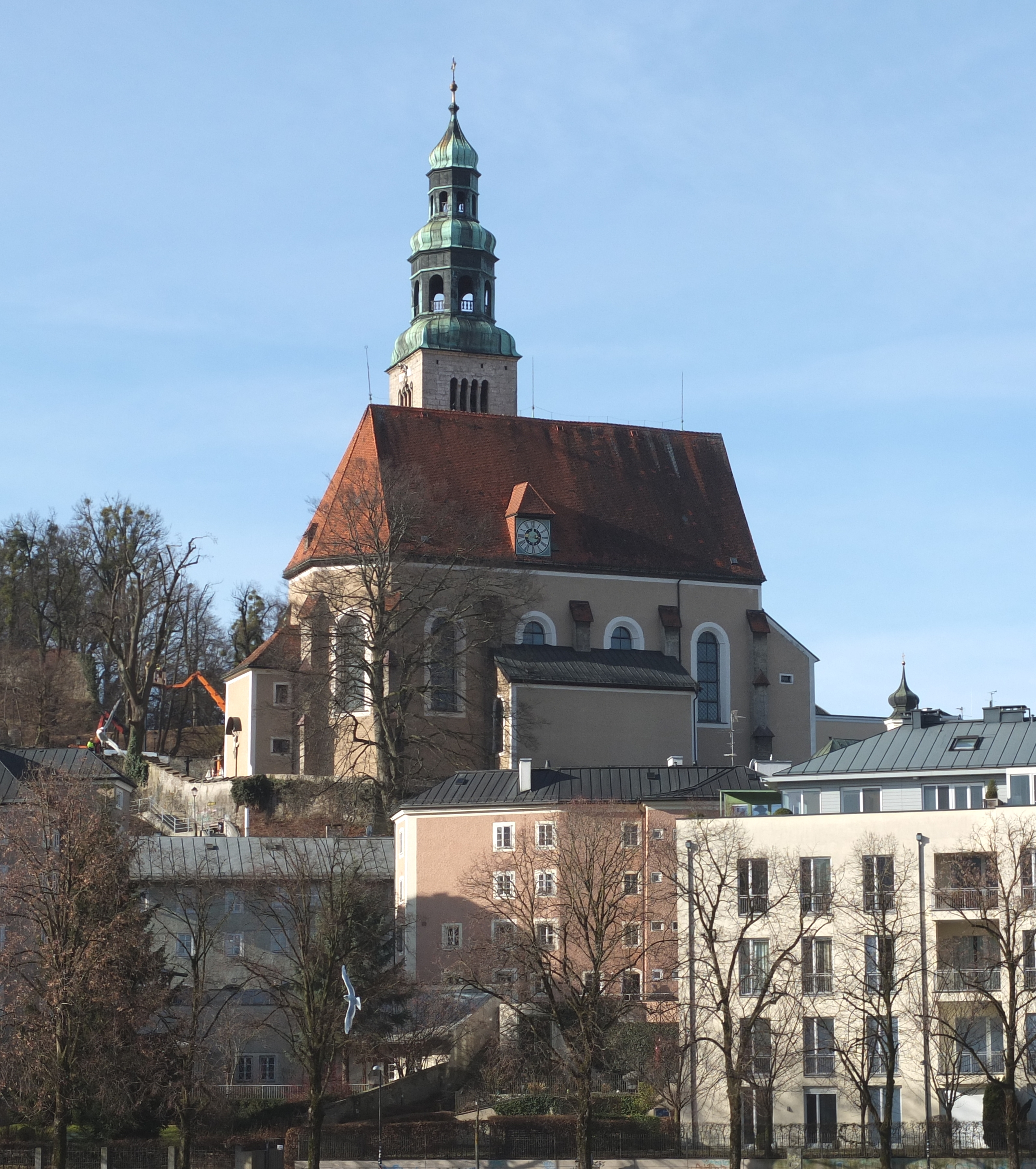 Catholic parish church "Mariae Himmelfahrt" in Mülln, Salzburg (Austria), view from East across the river Salzach.